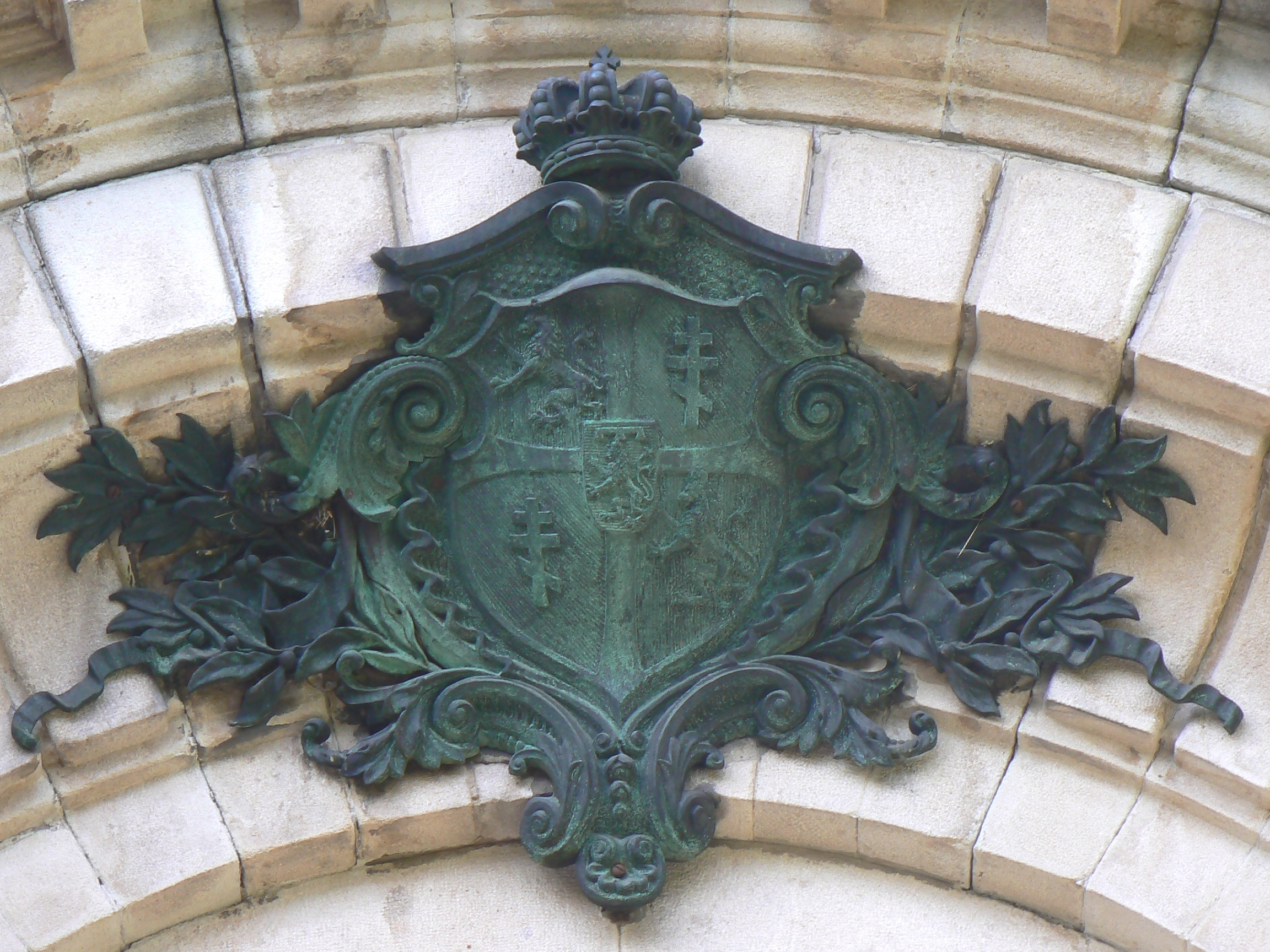 The coat of arms beyond the entrance of the mausoleum of Alexander Battenberg in Sofia, Bulgaria